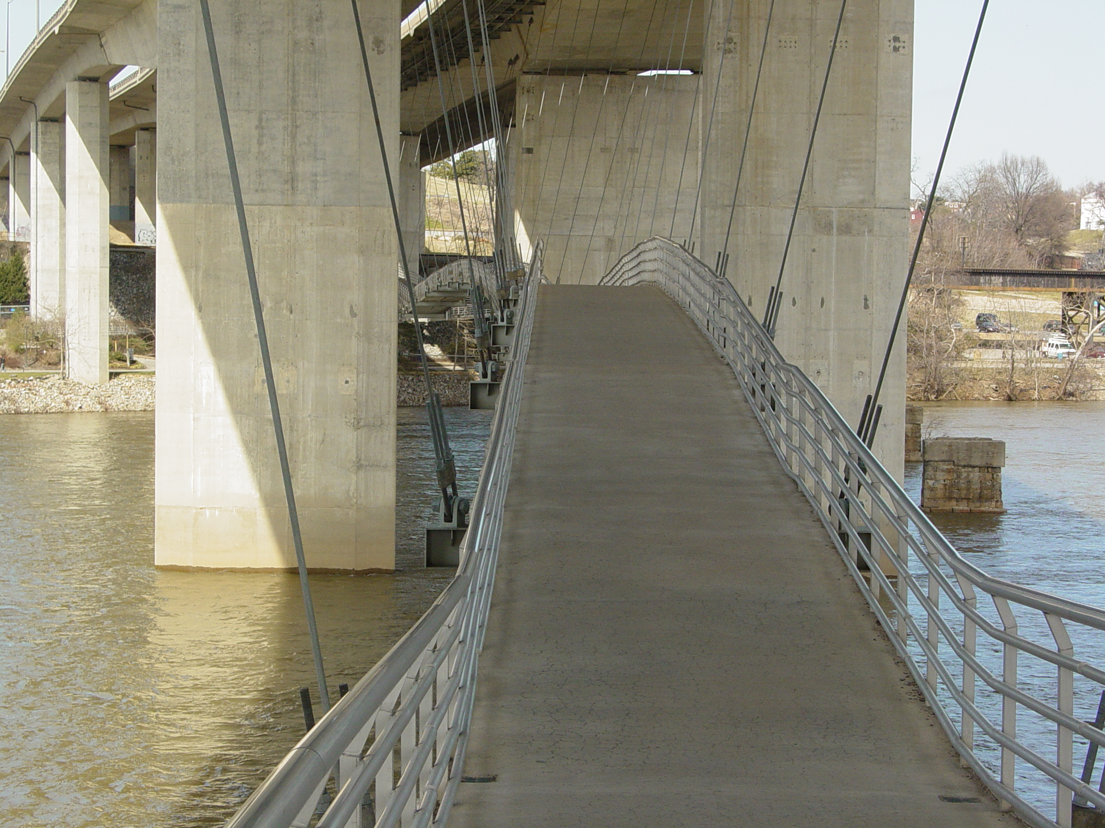 Robert E. Lee Memorial Bridge as viewed from underneath, showing suspension footbridge to Belle Isle — crossing the James River in Richmond, Virginia.